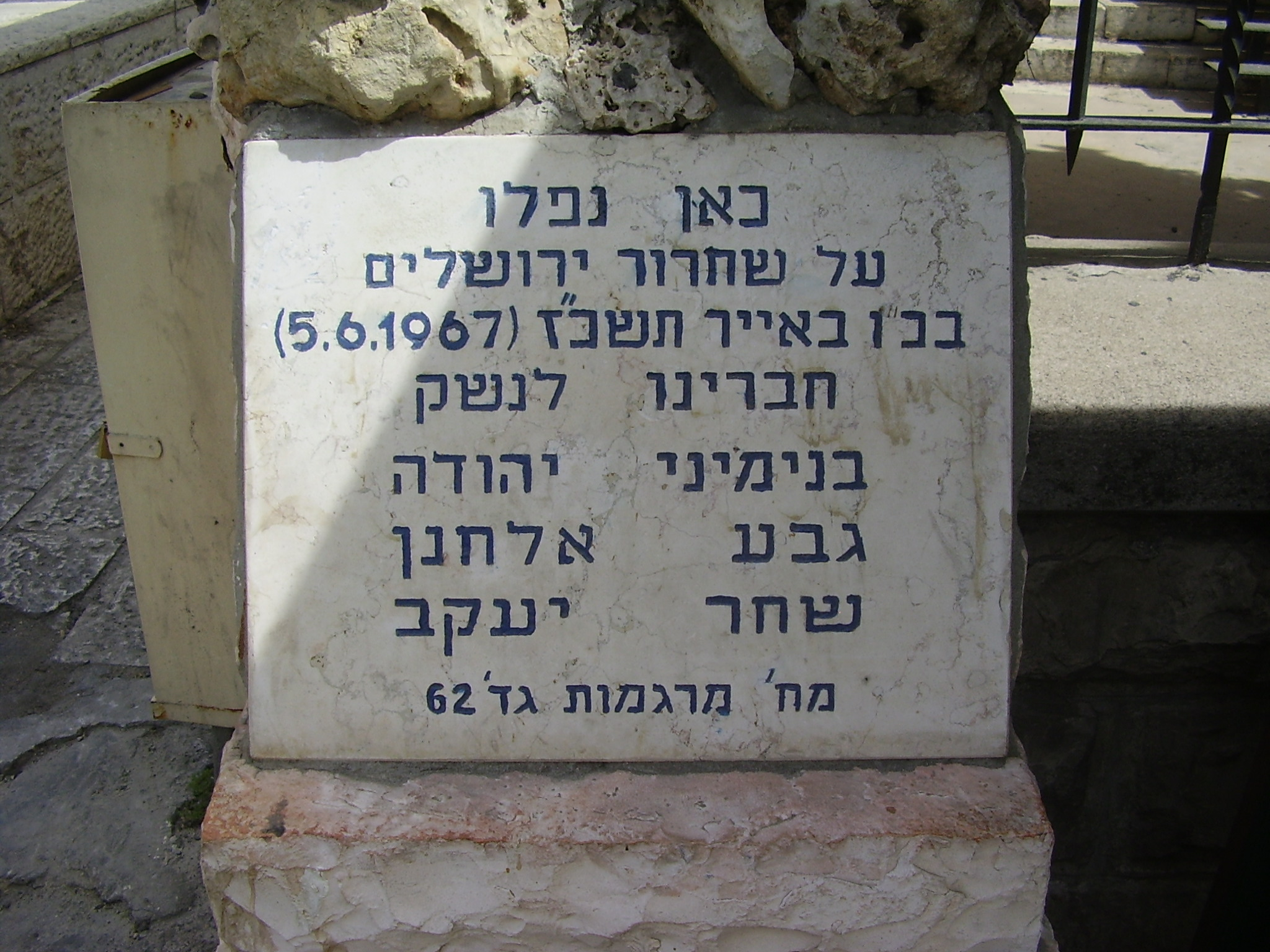 Monument to three fallen soldiers in Jerusalem in Six-Day War